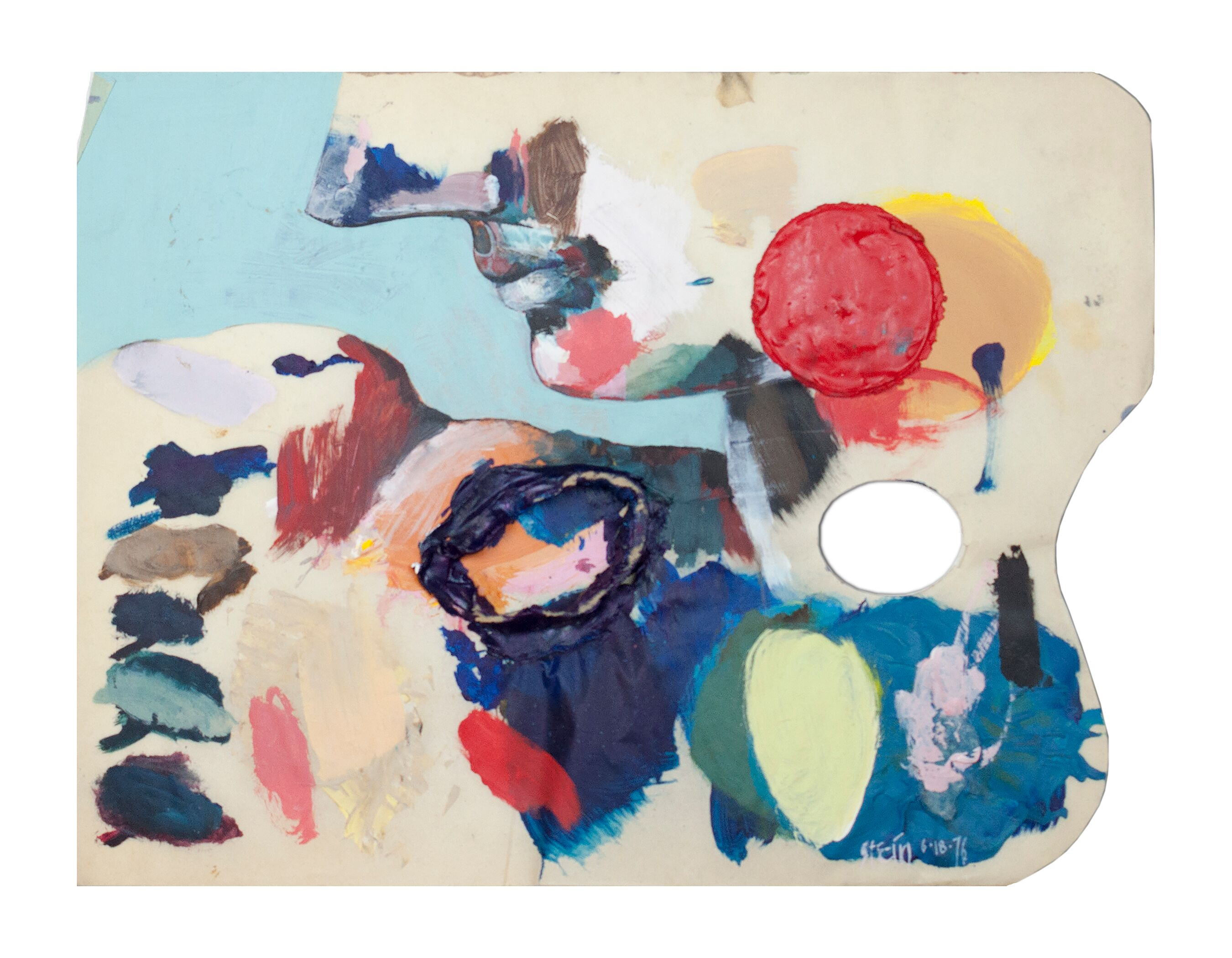 Profile Palette 426.001 1975; acrylic on paper; 12x16”